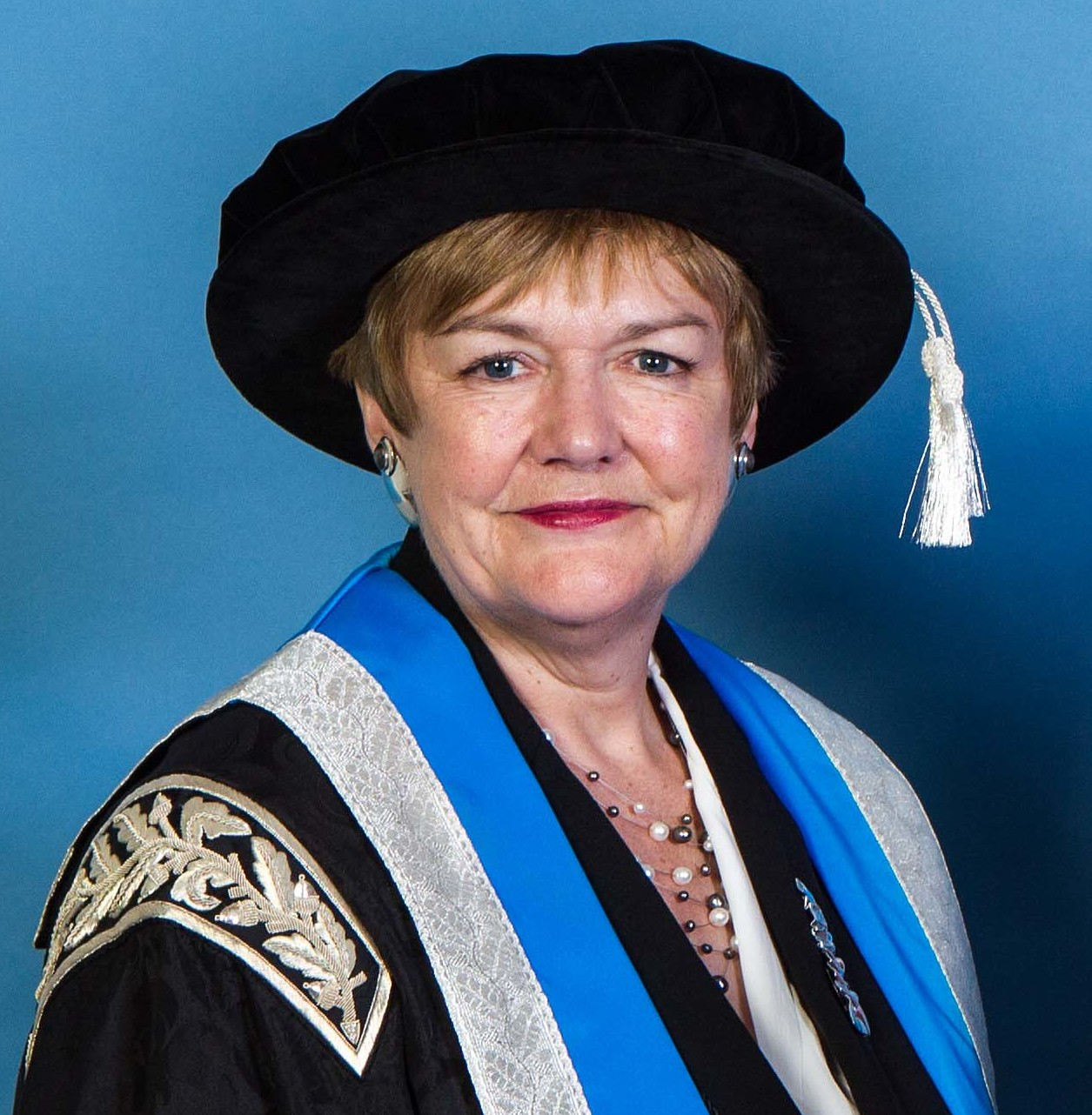 Pamela Gillies, Khalid Abdul Rahim and Muhammad Yunus, at Khalid's honorary graduation from Glasgow Caledonian University